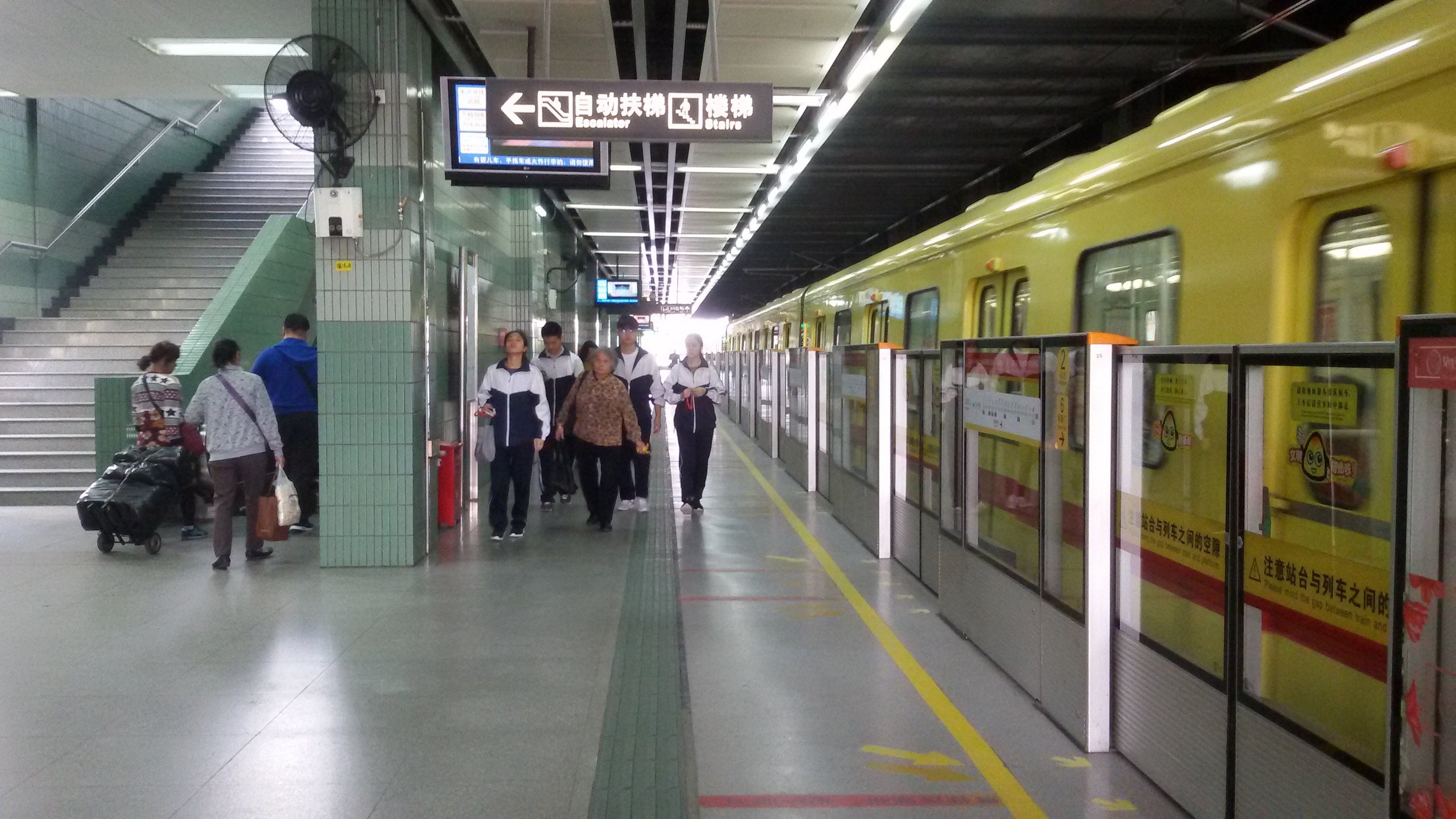 Station Platform for Xiangxue Station in Guangzhou Metro (Towards Xilang).